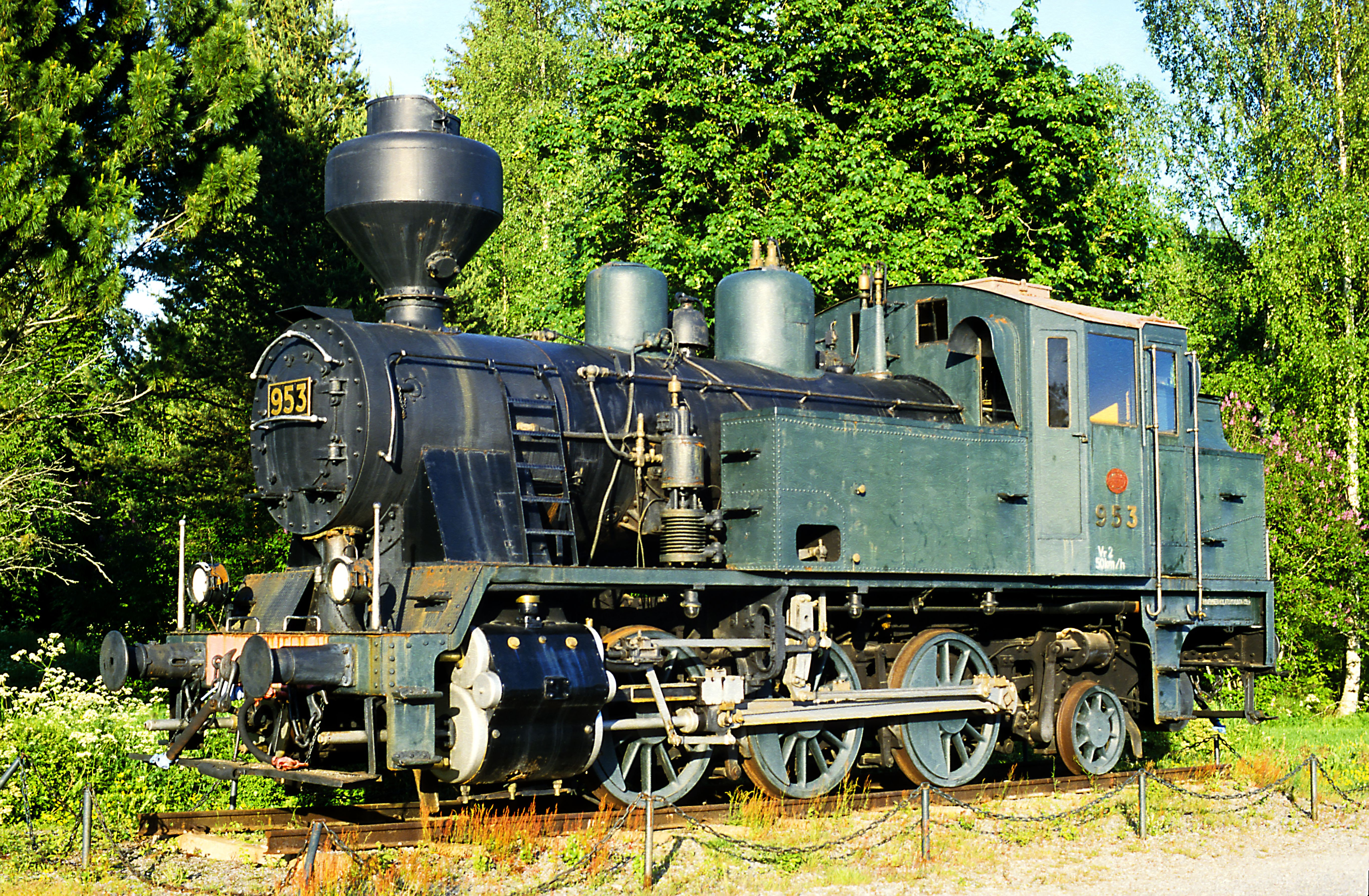 VR Class Vr2 steam locomotive (no. 953) at Haapamäki train station in Keuruu, Finland.